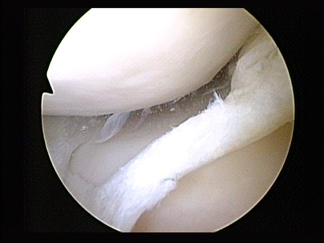 Complete tear of medial meniscus with free-floating fragment during knee arthroscopy. The normal meniscus can be seen at the far-left edge.